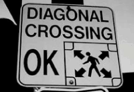 B&W Photograph of a pedestrian scramble (Barnes Dance) sign, found on page 93 of Pedestrian Facilities Users Guide: Providing Safety and Mobility, USDOT Federal Highway Administration Research and Development, Publication number FHWA-RD-01-102, March 2002. Online copy available at: Work of the federal government, thus public domain.